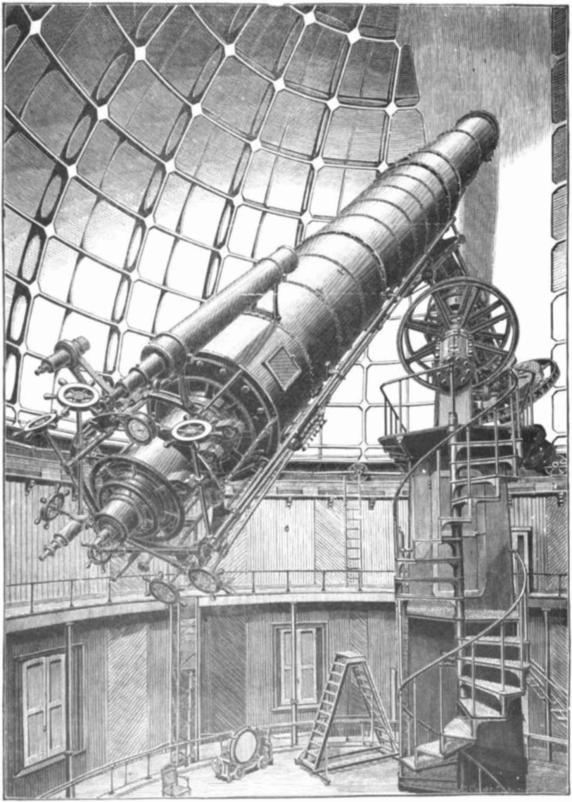 Drawing of the James Lick telescope at Lick Observatory, Mt. Hamilton, California, USA, from 1888 astronomy book. Built between 1876-1888, it is an antique 36 inch (91 cm) aperture refractor, the second largest refracting telescope in the world. The focal length (the approximate length of the tube) is 56 ft. 2 in. (17.11 m). The telescope was used by actually looking throuth the eyepiece in the center of the end of the tube. Astronomers used the stepladder visible in the background, and the catwalks on the building, to reach the eyepiece. In addition, the floor of the building could be raised pneumatically for this purpose. Alterations to image: cropped out caption and frame, brightened image slightly, rotated slighly to make image vertical, converted to 48 grayscale PNG.